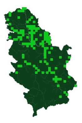 Rasprsotranjenje vrste u Srbiji (Alciphron)